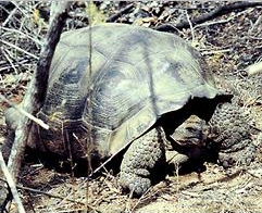 C. n. microphyes (L. 'small in stature') - Volcán Darwin tortoise